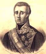 Portrait of José Ramón Rodil and Campillo, marquis of Rodil and general of the Spanish Army.